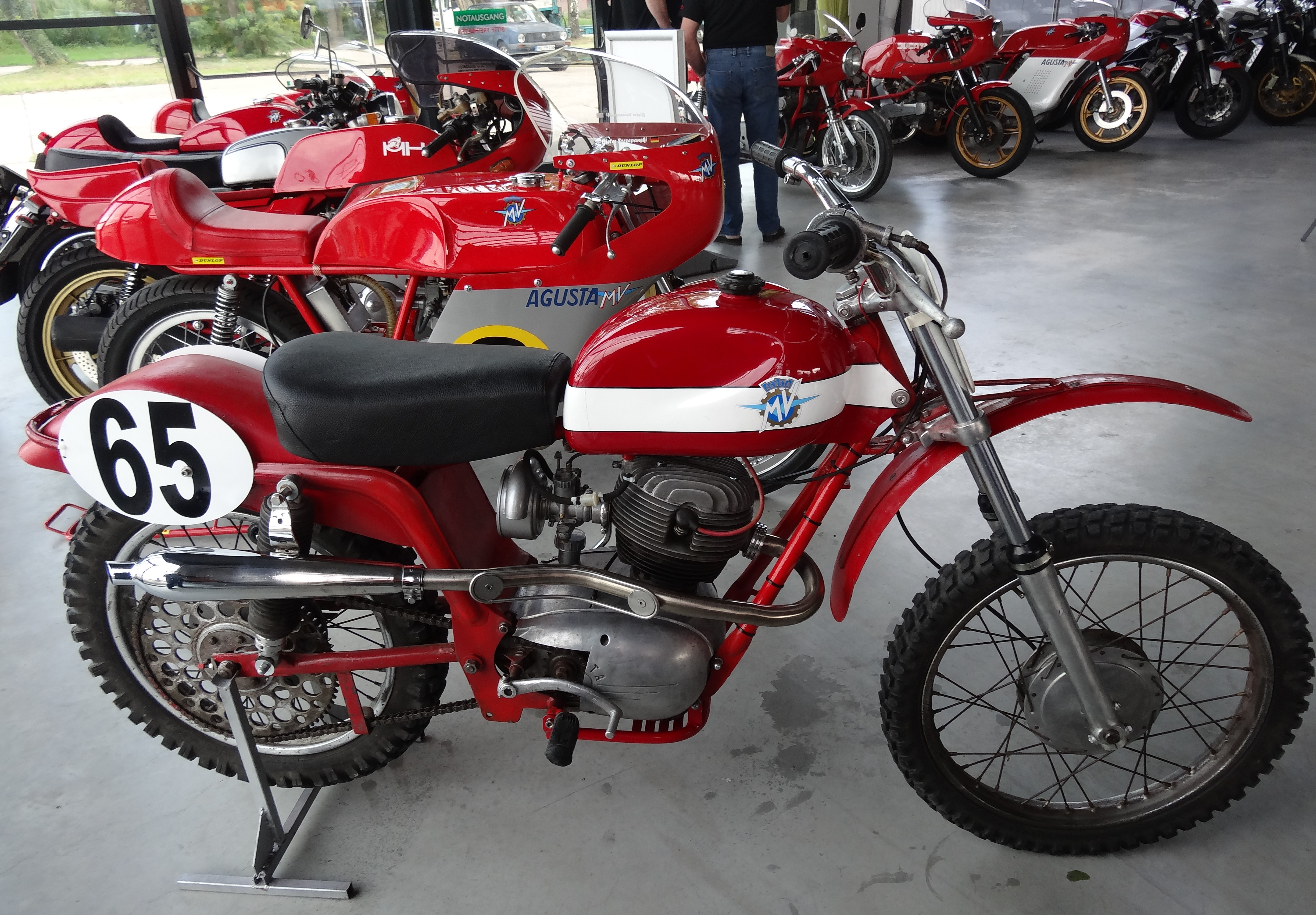 MV Agusta